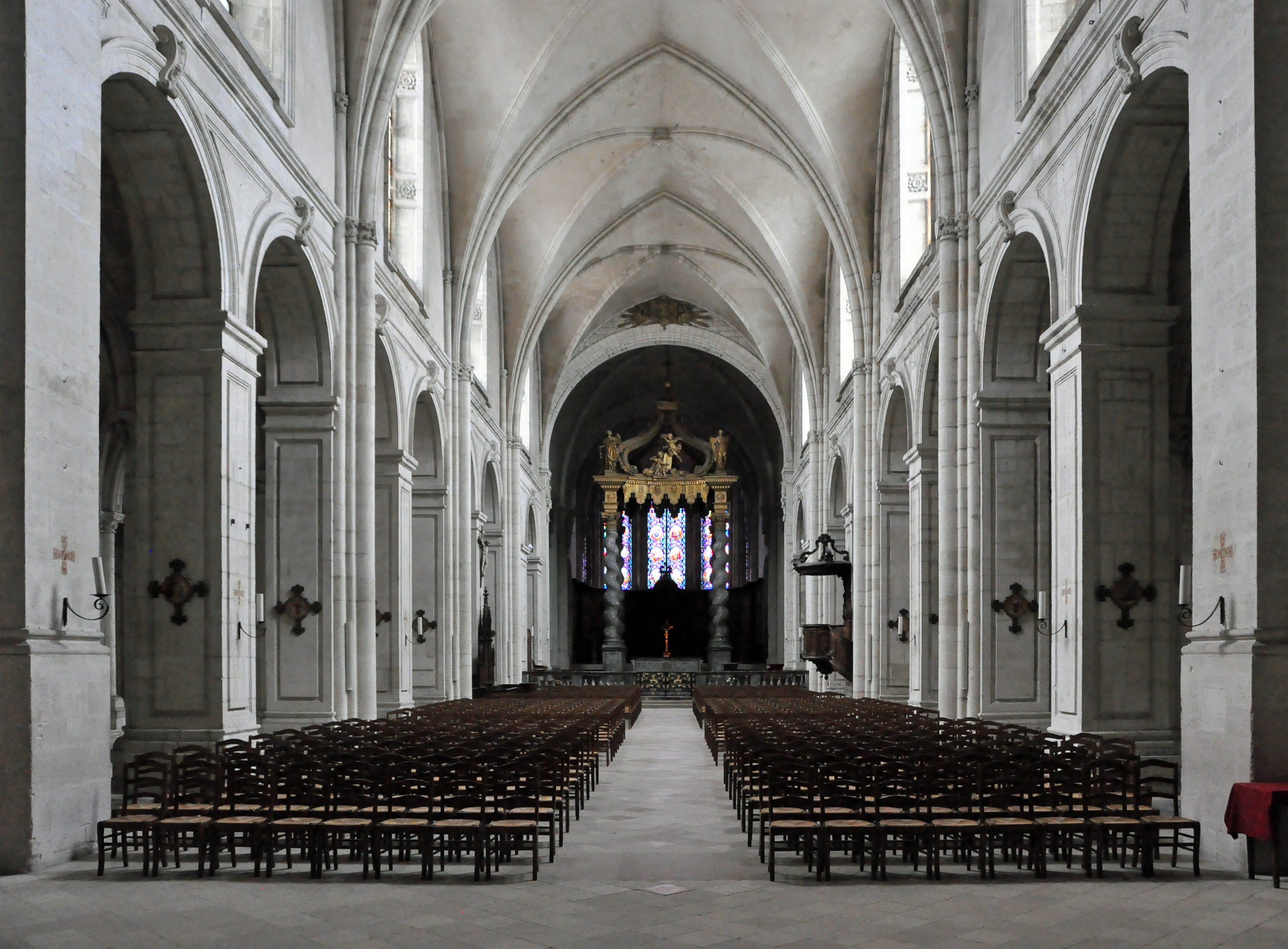 Verdun (France): Notre-Dame cathedral, interior - middle-aisle and choir